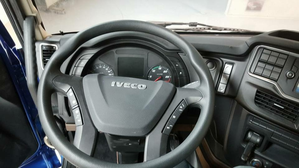 Iveco Stralis 2019 interior